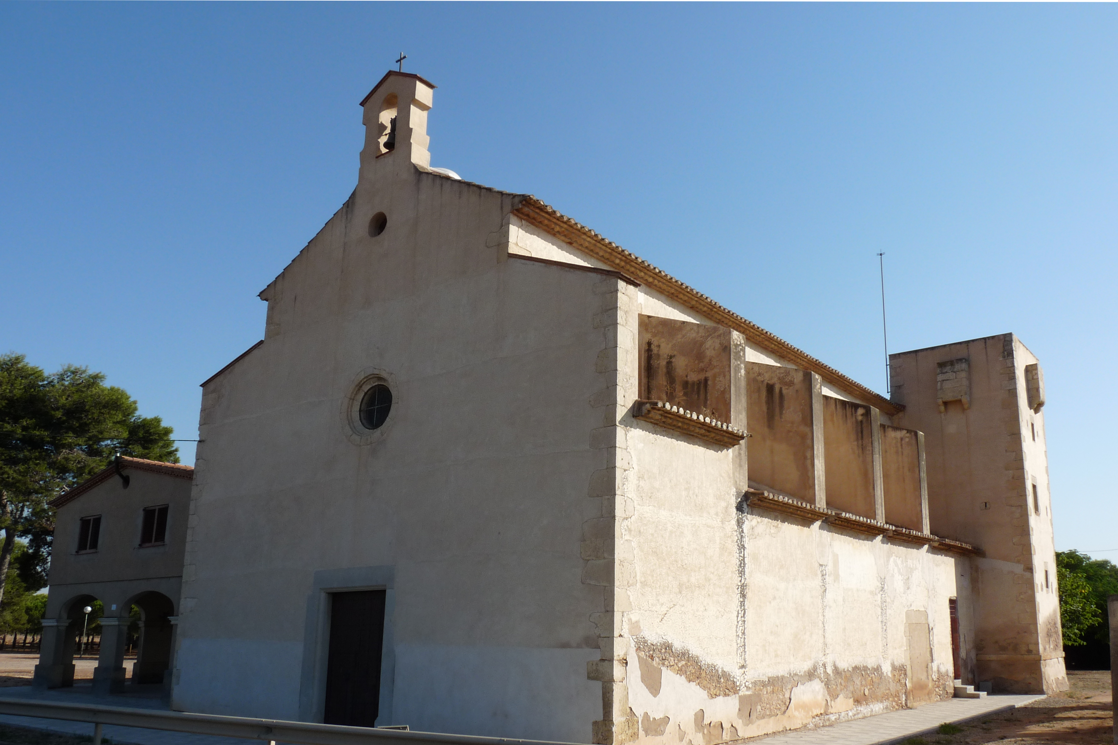 Hermitage of la Pinada with its defence tower (S XIV). Vila-seca.